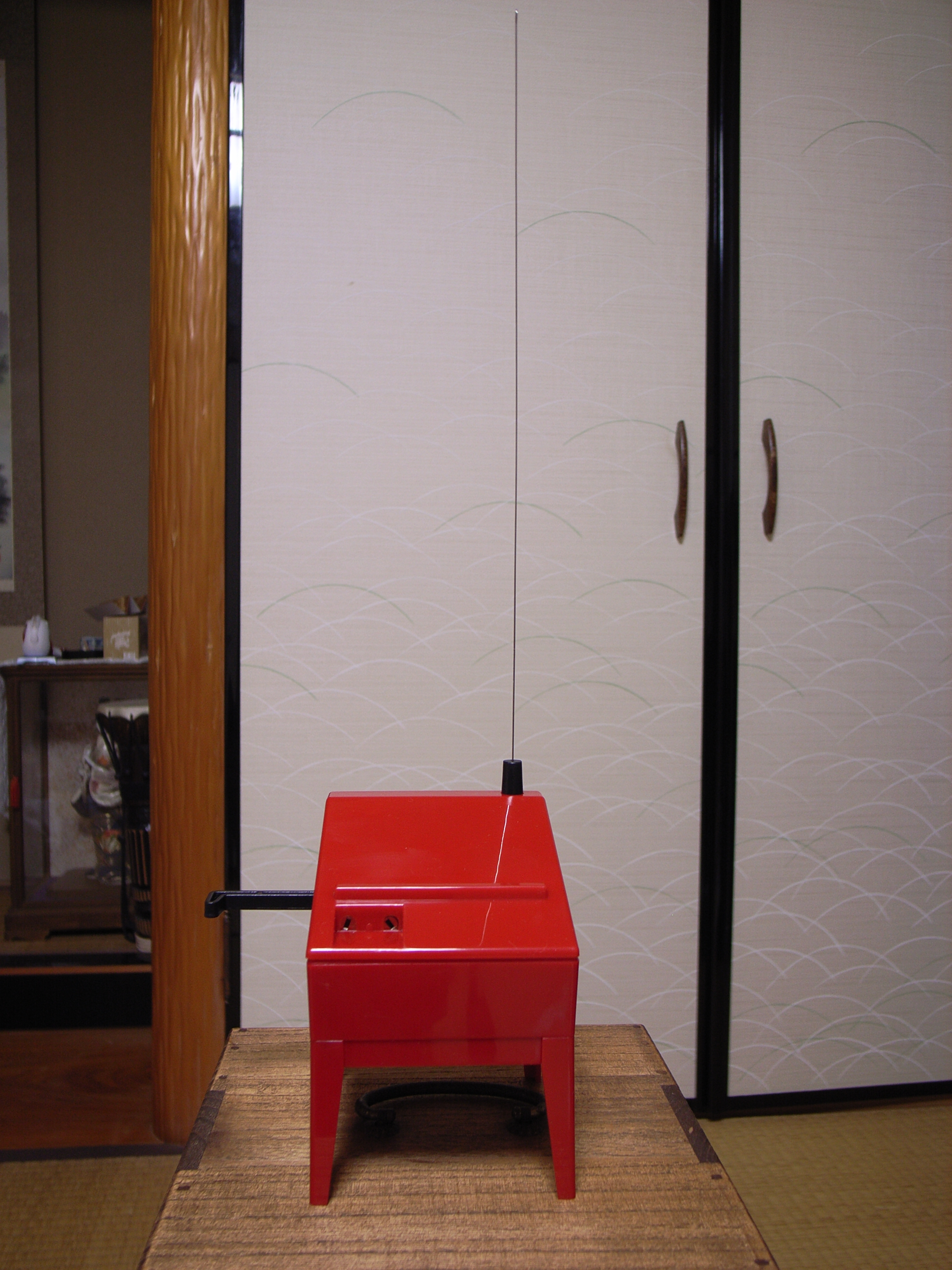 Gakken Theremin mini Gakken Theremin mini is a supplement of Otona no Kagaku vol.17 published by Gakken in 2007.